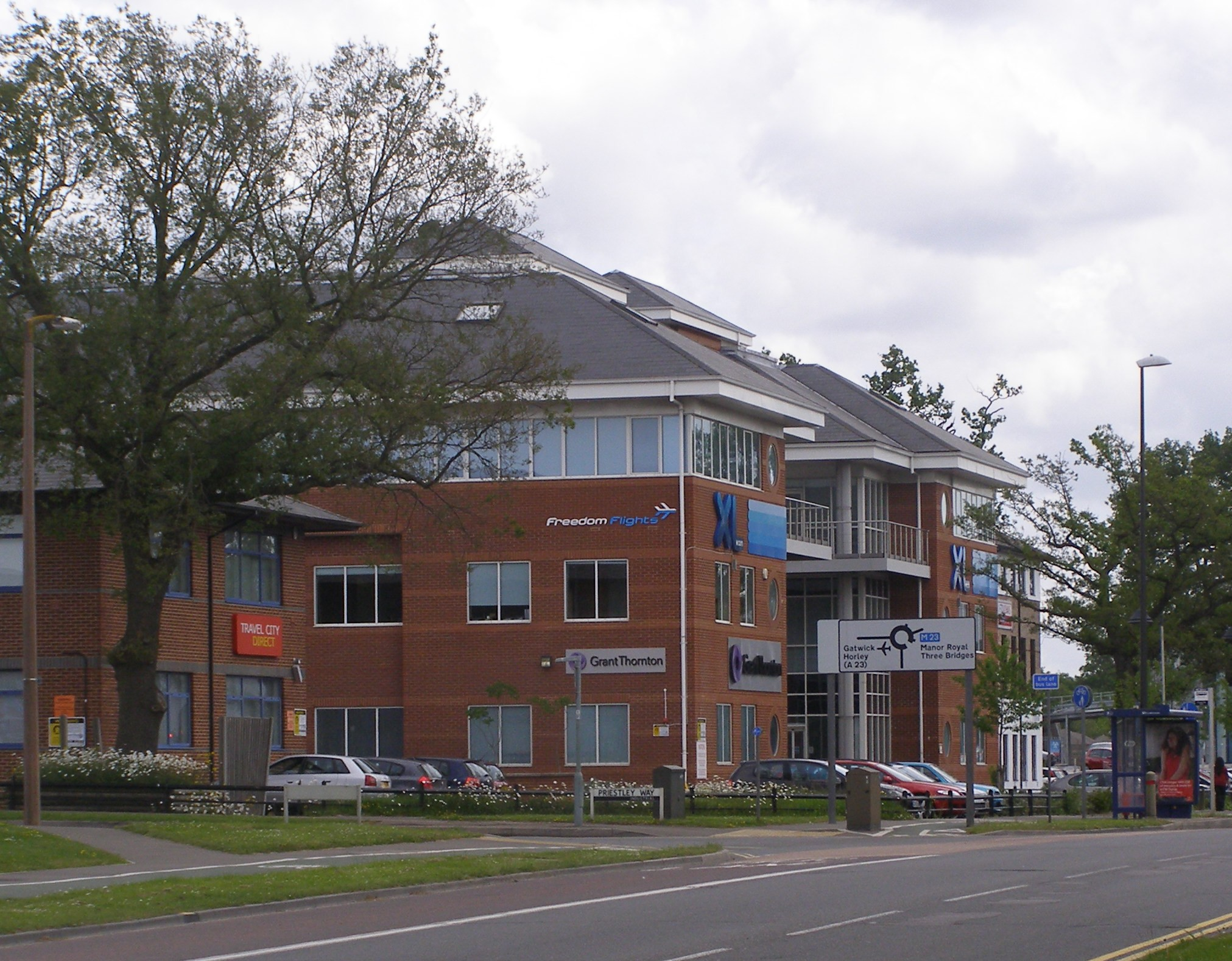 Former XL Airways HQ at Manor Royal, Crawley, West Sussex, England